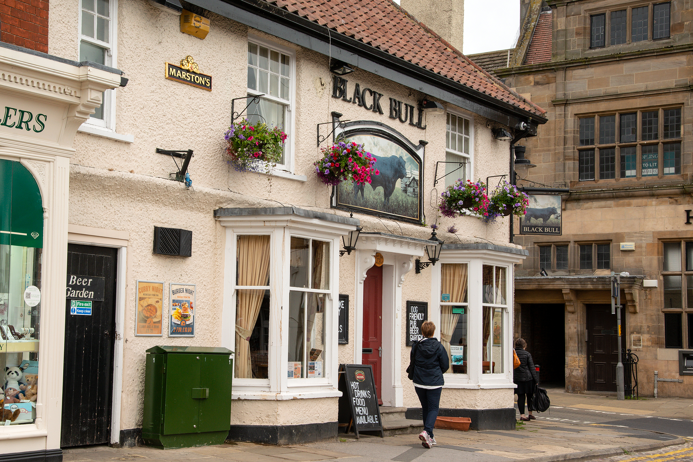 Thirsk is an important town for tourists with accommodations, restaurants and attractions